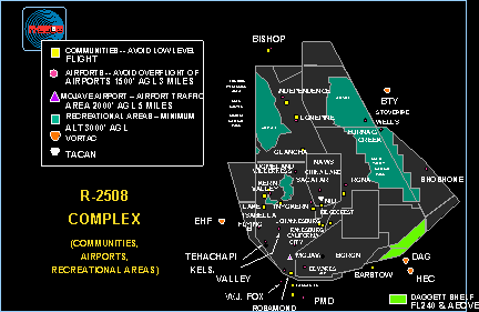 Map of Special Use Airspace R2508 in the Mojave Desert, California, United States